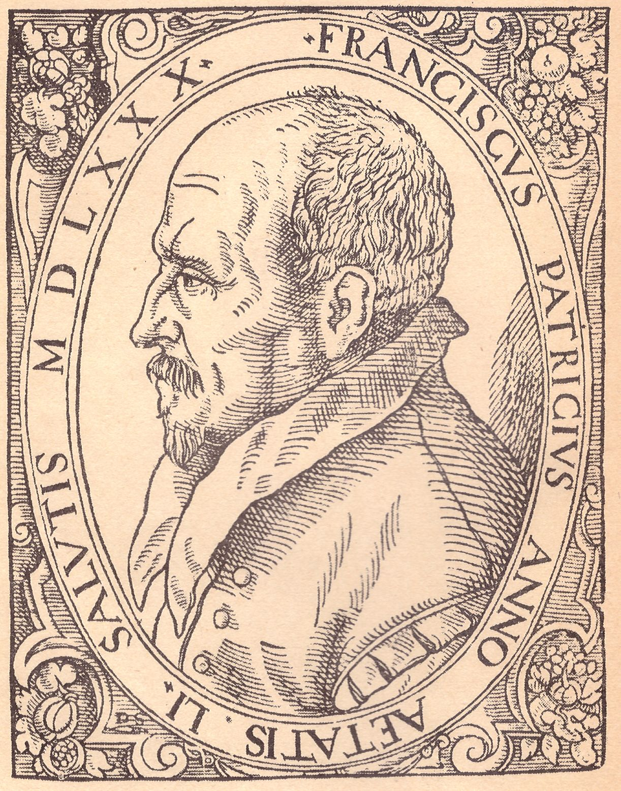 Portrait of Franciscus Patricius /Franjo Petriš, Francesco Patrizi/ (1580) in his Discussiones peripateticae. Edition: Basel 1581.